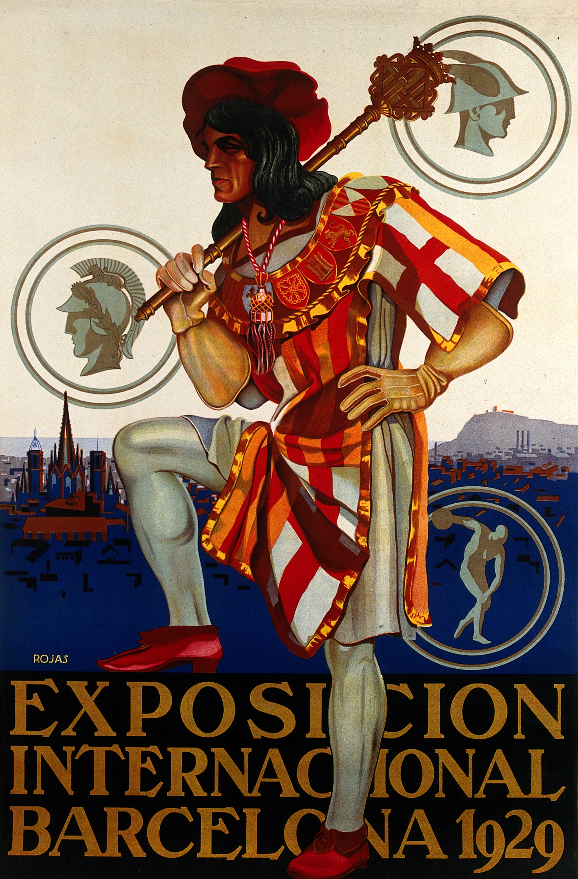 A poster advertising the International Exhibition, Barcelona, 1929, featuring a man wearing 16th century (?) costume with the coats of arms of Spanish kingdoms "Exposicion internacional Barcelona 1929" Iconographic Collections Keywords: Exposición Internacional de Barcelona; Poster; Traditional; Exhibition; Advertisement; Rojas.; Male; Spain